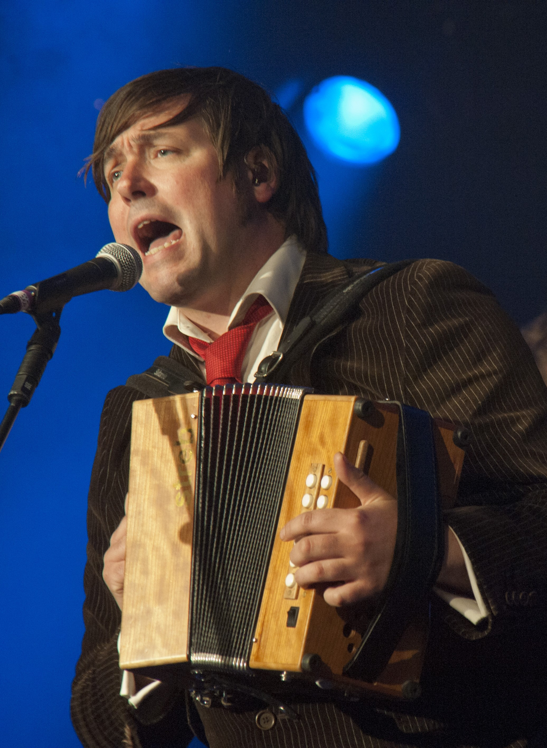 John Spiers playing with Bellowhead. Crop of File:Bellowhead's John Spiers (6001872234).jpg to portrait format